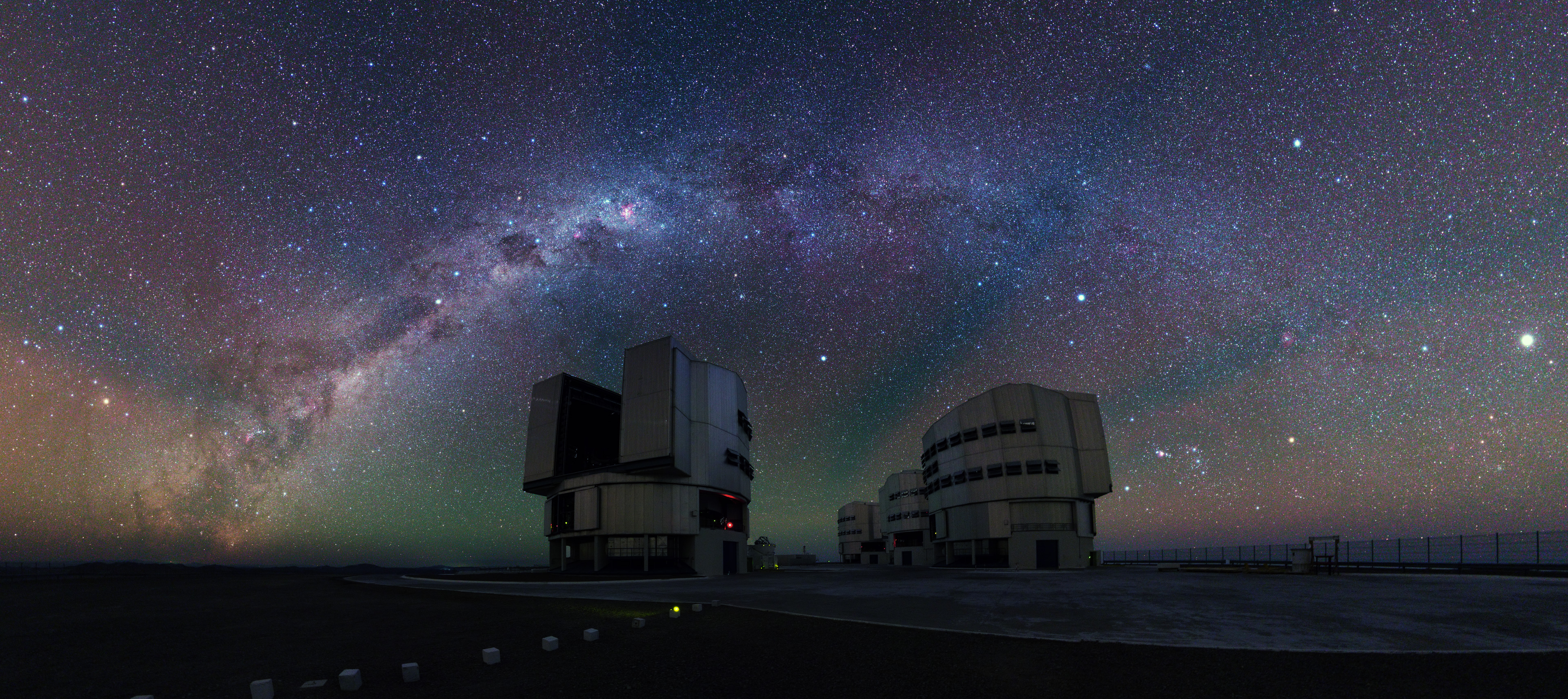 A UHD panorama shot of the VLT platform with the red shades of airglow visible overhead.